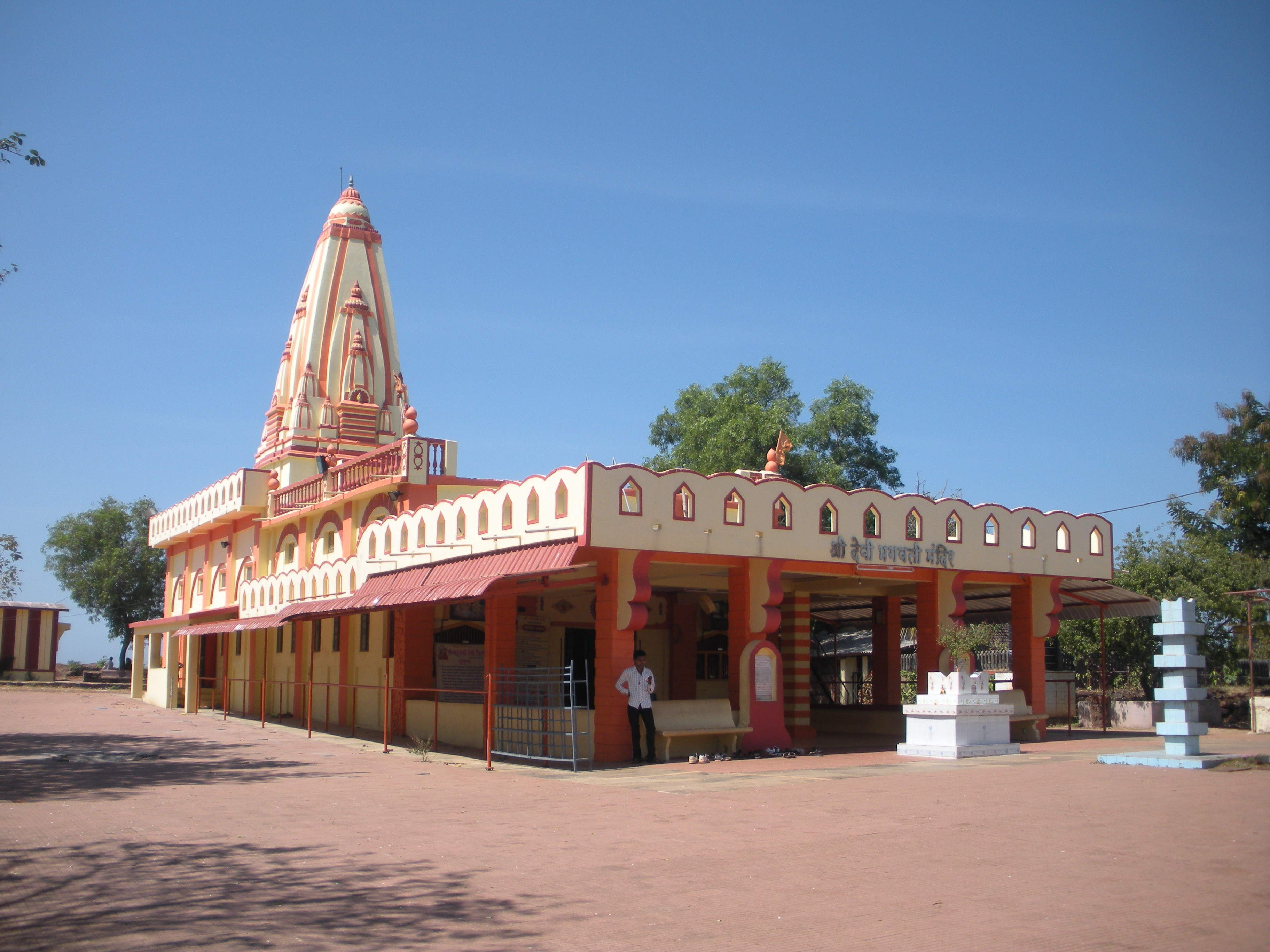 SriDevi Bhagavati Mandir, Ratnagad